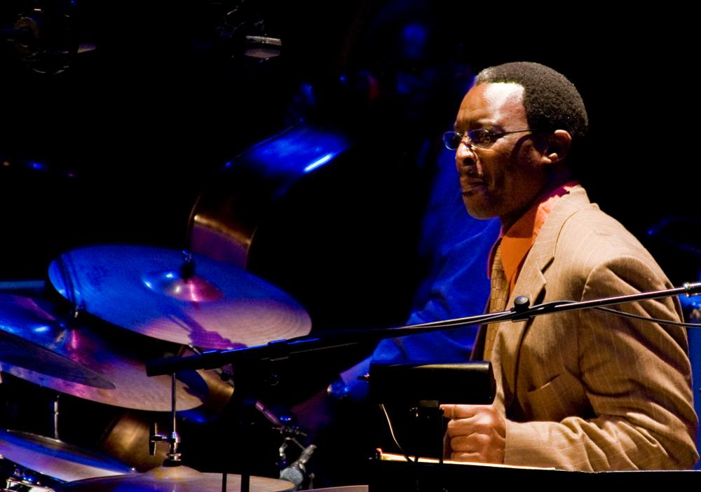 Herlin Riley, Christmas concert December 8, 2007 at Jazz at Lincoln Center